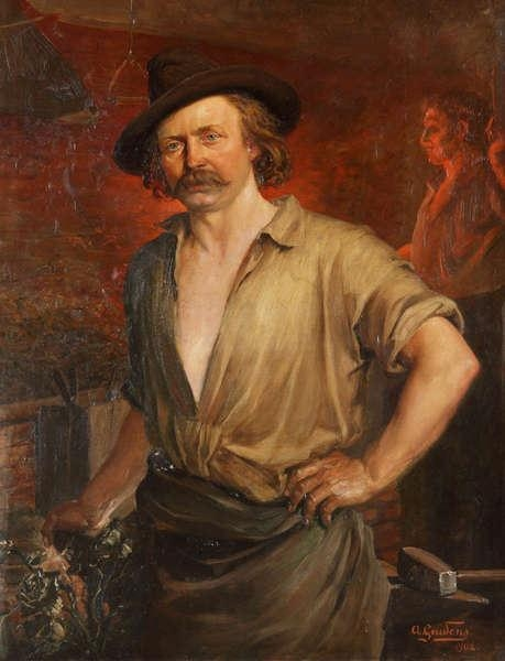 Portrait of Lode Van Boeckel